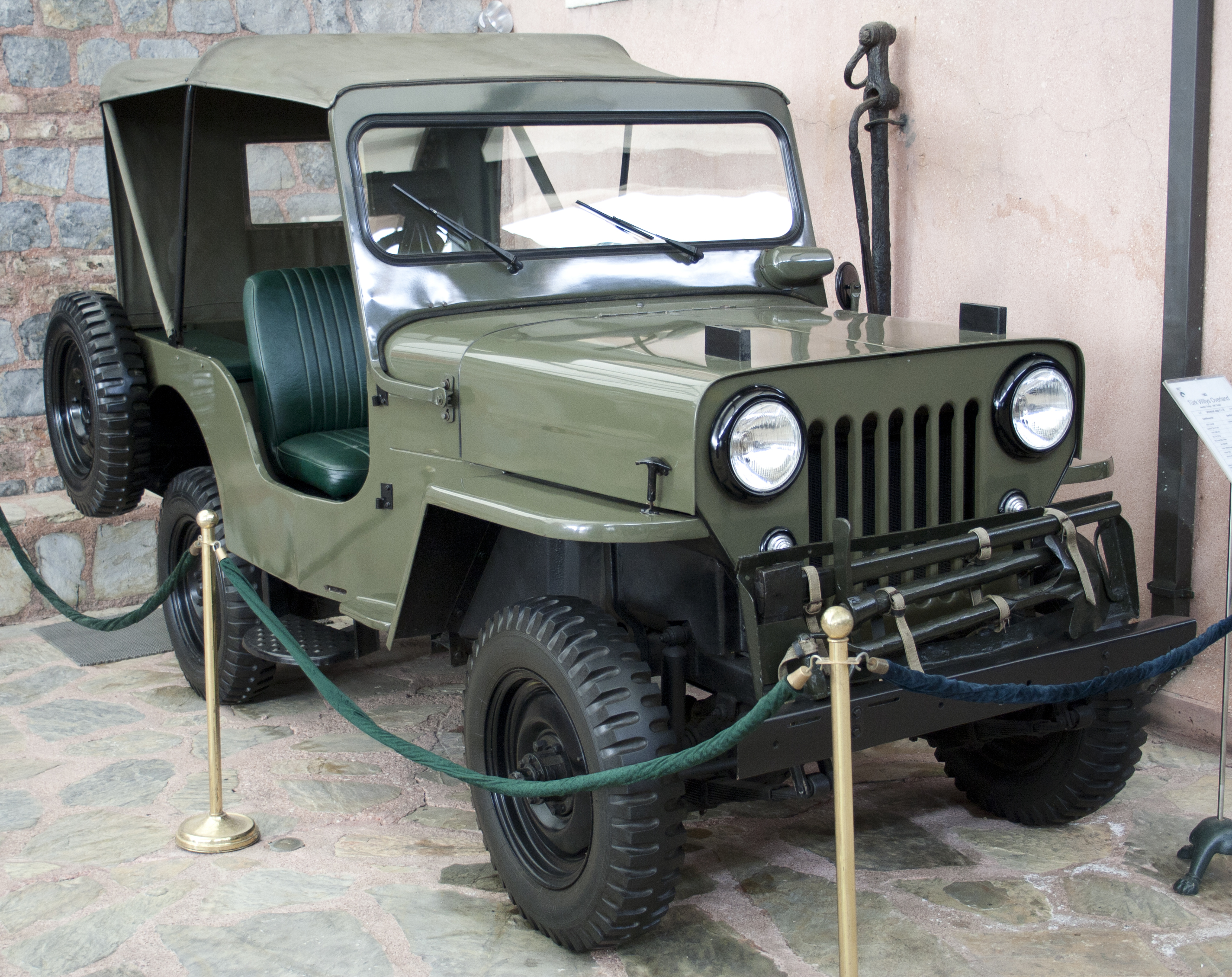 A 1963 Türk Willys Overland CJ-3B on display at the Rahmi M. Koç Museum of Transportation. These were built in Turkey, beginning in 1954.